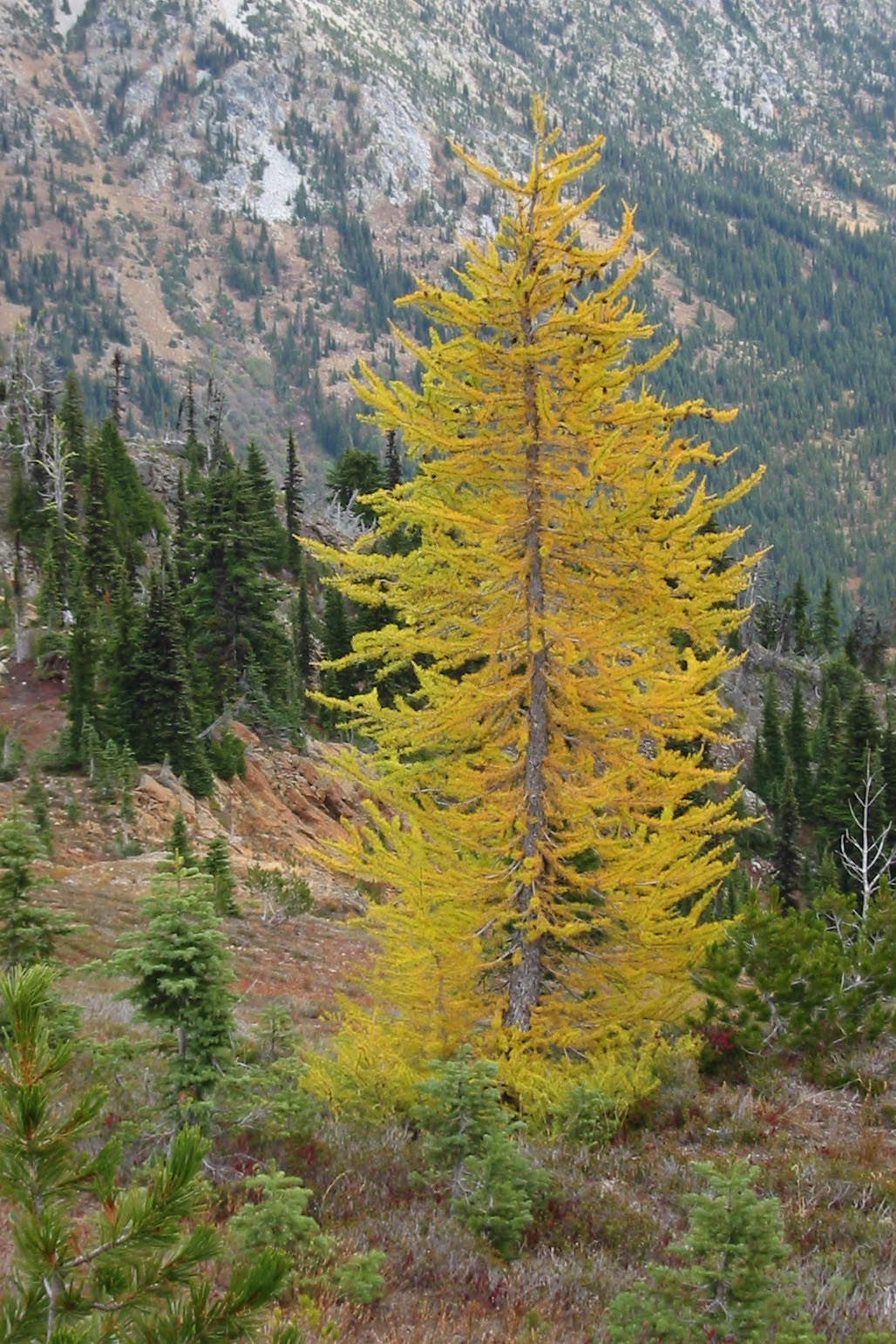 Subalpine Larch (fall foliage, about 4 m high) with Pinus albicaulis (lower left foreground and right of subject); Abies lasiocarpa (dominant) and a bit of Tsuga mertensiana behind.